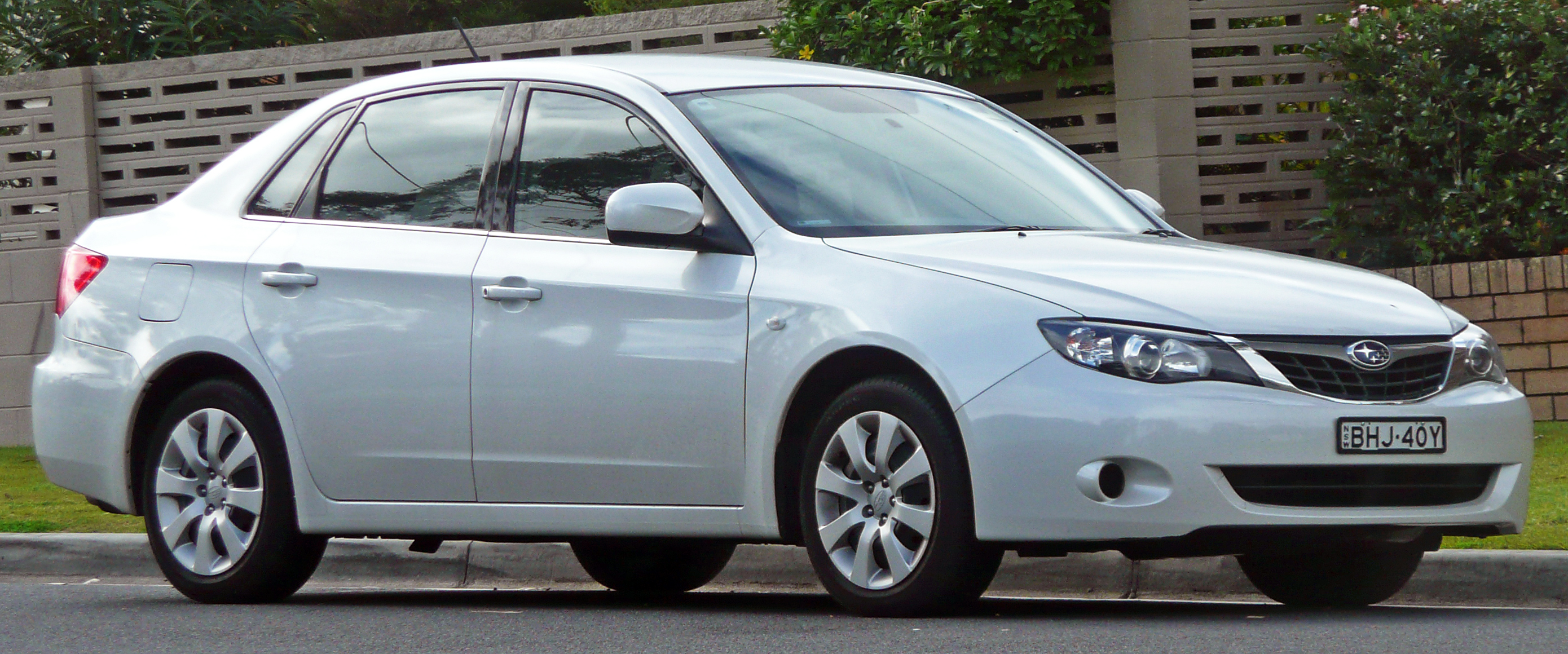 2008 Subaru Impreza (GE7 MY09) R sedan. Photographed in Cronulla, New South Wales, Australia.